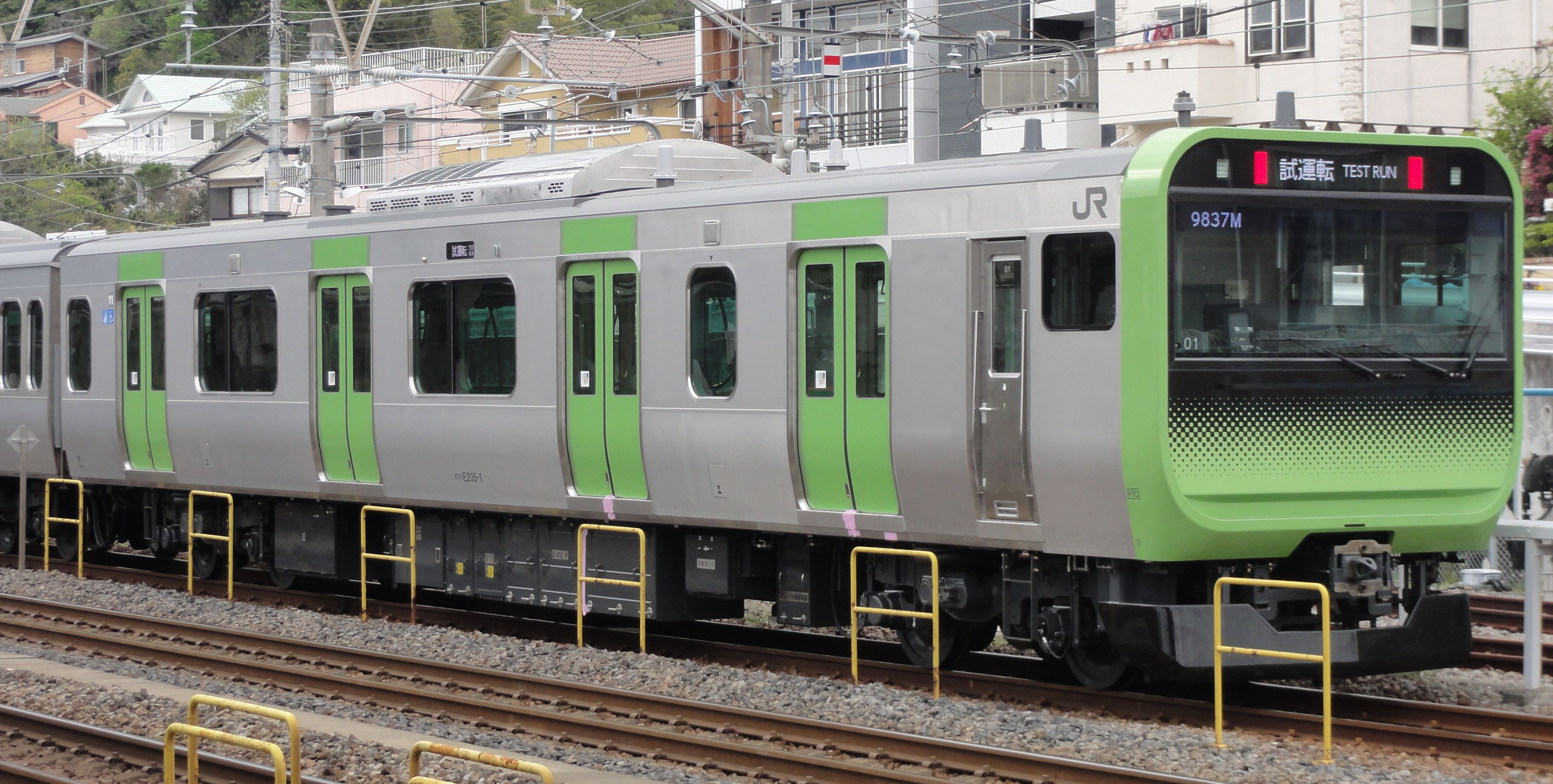 JR East E235 series EMU car KuHa E235-1 (car 11) of set 01